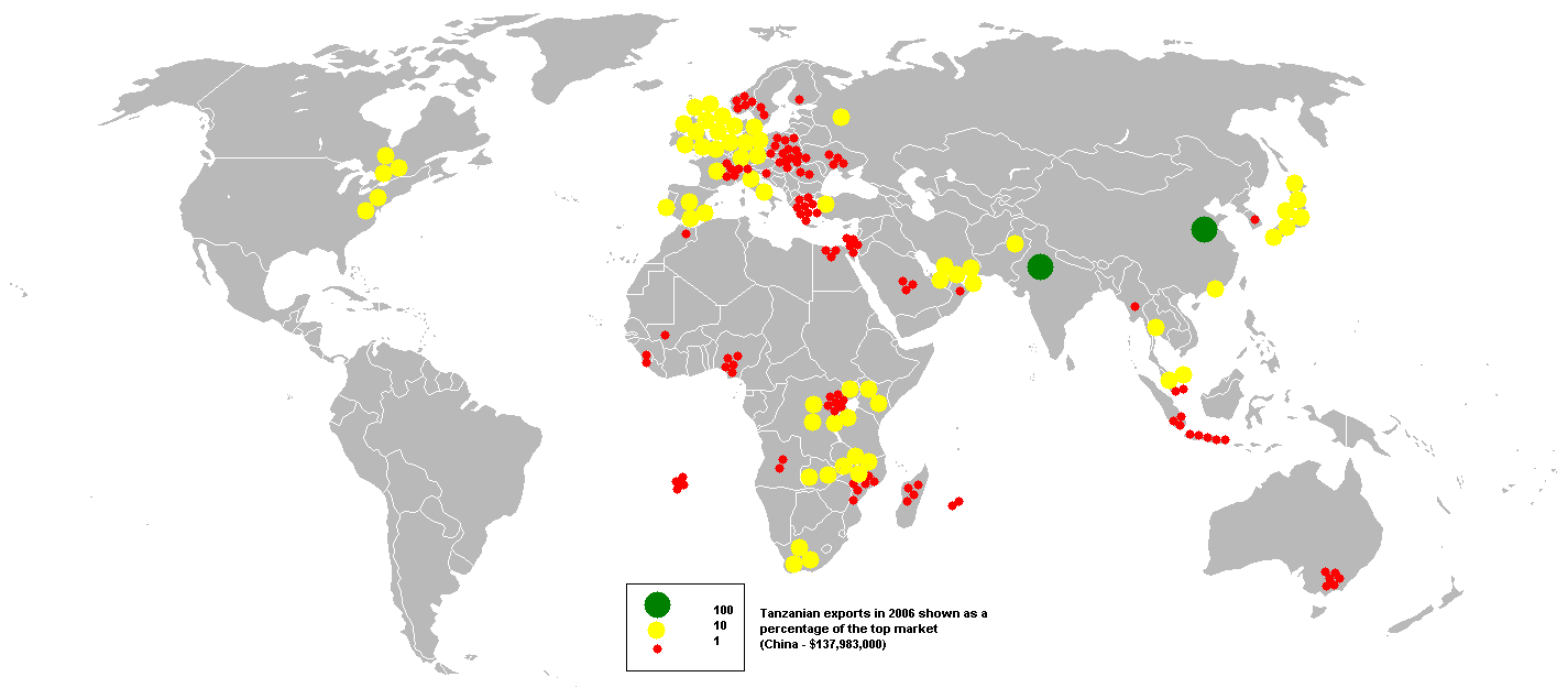 This bubble map shows the global distribution of Tanzanian exports in 2006 as a percentage of the top market (China - $137,983,000). This map is consistent with incomplete set of data too as long as the top producer is known. It resolves the accessibility issues faced by colour-coded maps that may not be properly rendered in old computer screens. Data was extracted on 23rd September 2007 from Based on Image:BlankMap-World.png